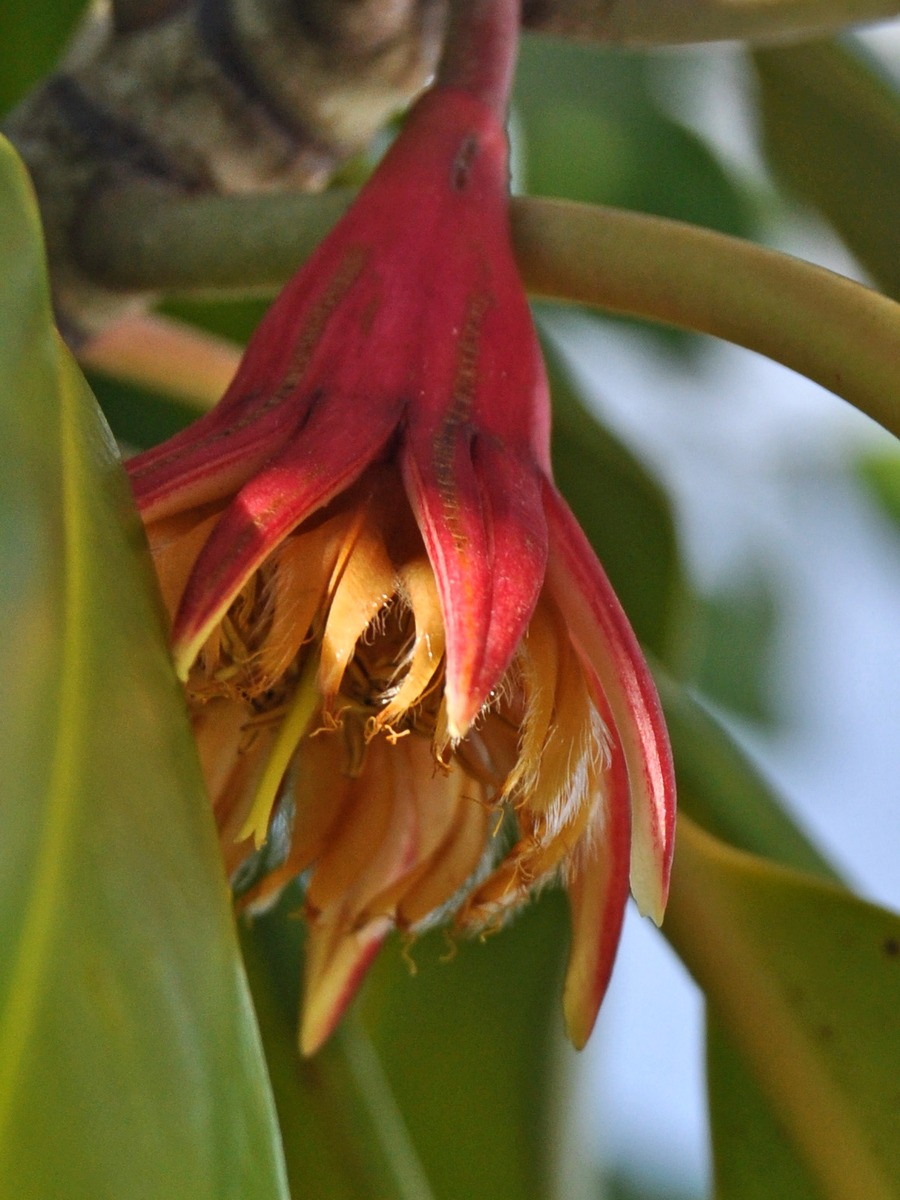 Bruguiera gymnorrhiza, flower close-up; showing the hairy corollas. From Sangatta, East Kalimantan, Indonesia